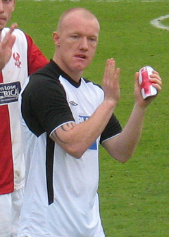 Andy Ferrell. Image cropped from original at flickr.